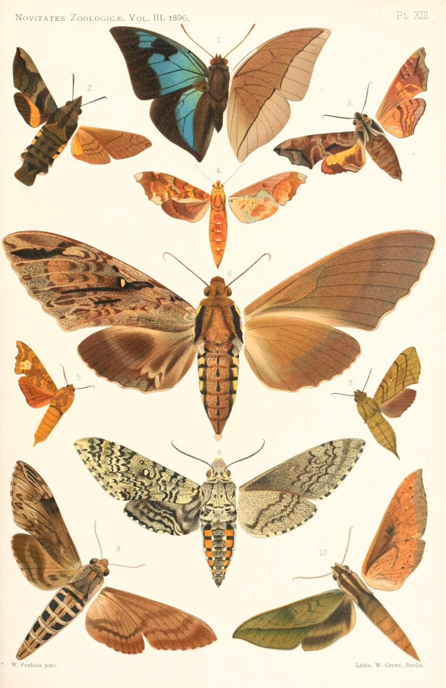 Novitates Zoologicae Volume3 1894 PlateXIII Text here File:NovitatesZoologicaeVolume31894PlateXIIItext.jpg